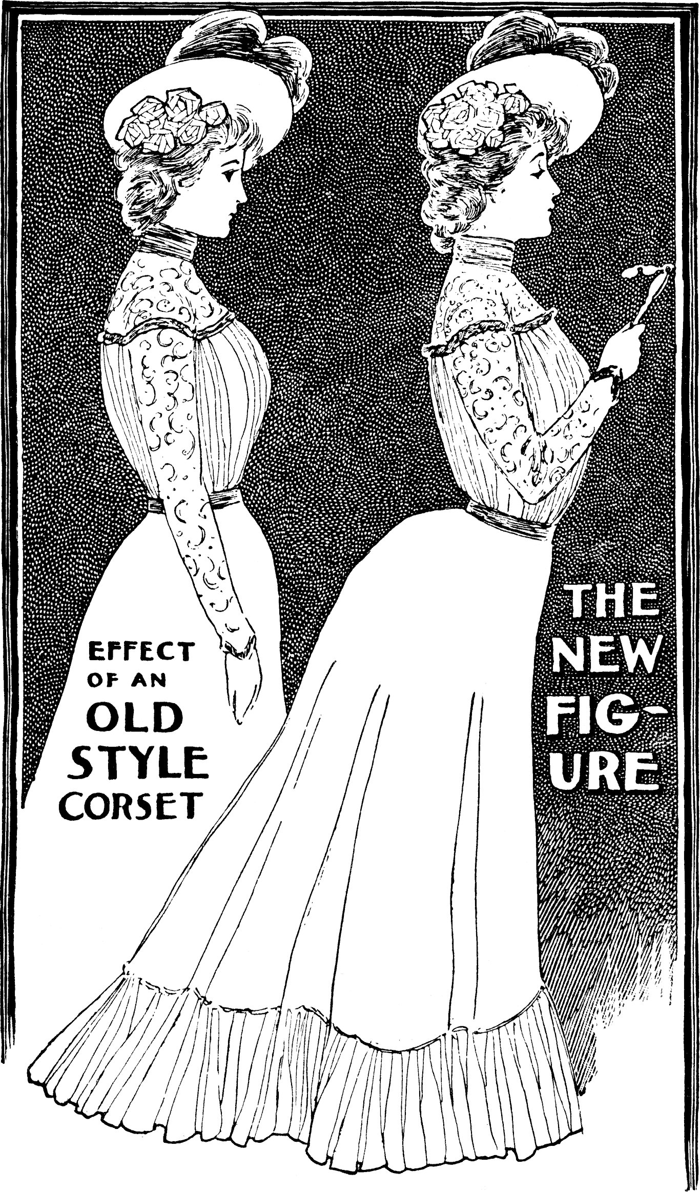 Illustration from the Ladies Home Journal, October 1900, contrasting the old Victorian corseted silhouette with the new Edwardian "S-bend" corseted silhouette.